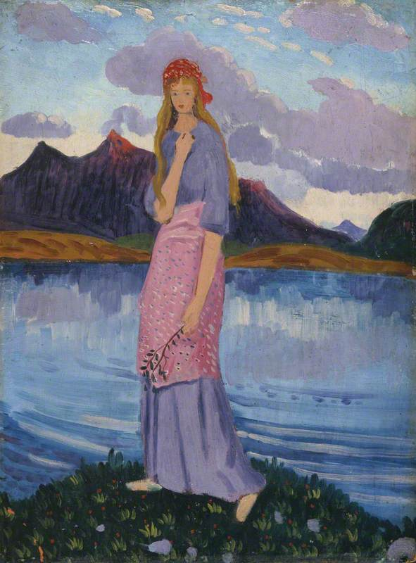 Girl Standing by a Lake James Dickson Innes. Subject possibly Euphemia Lamb.